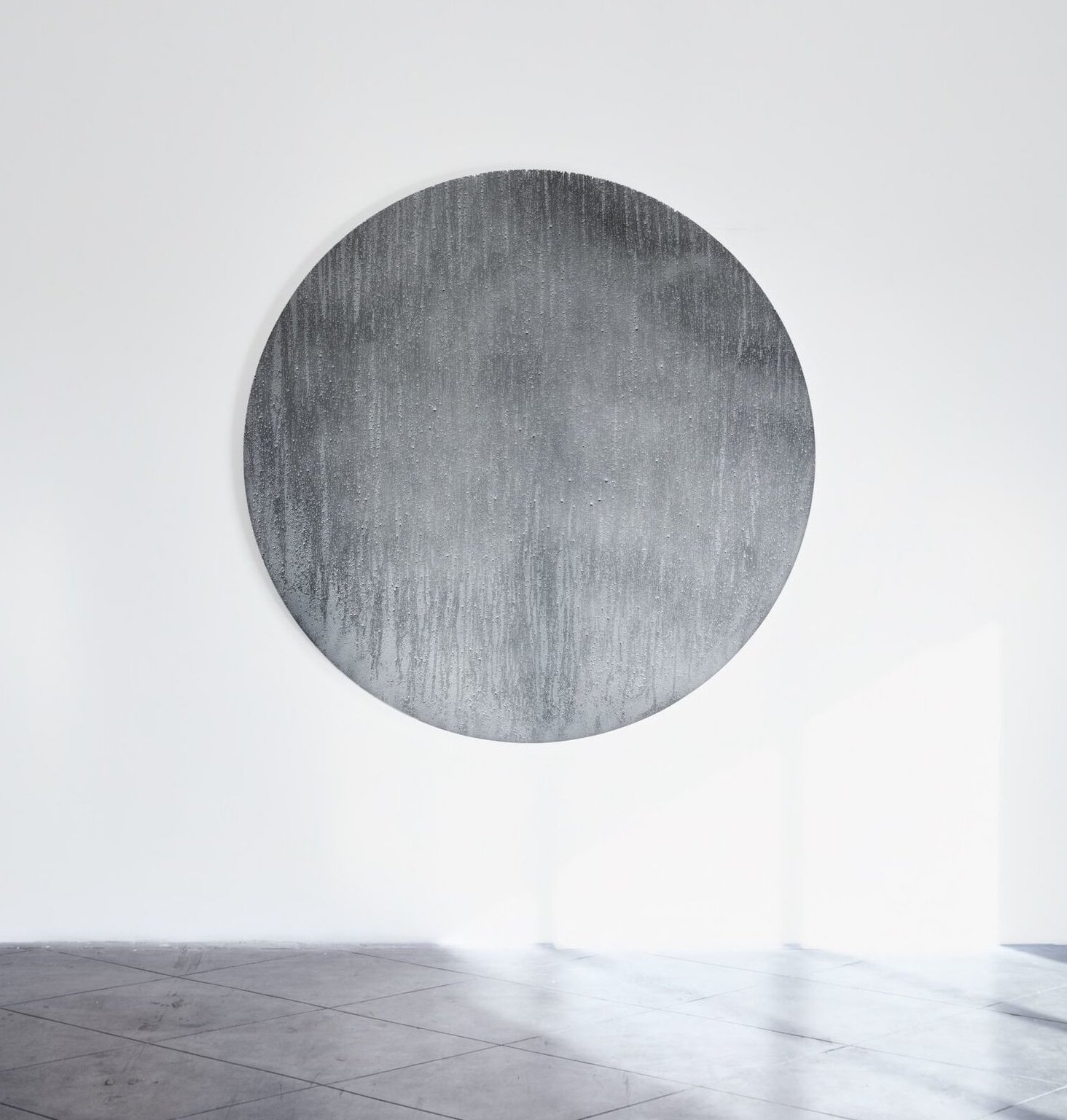 Rain Painting Anthony James